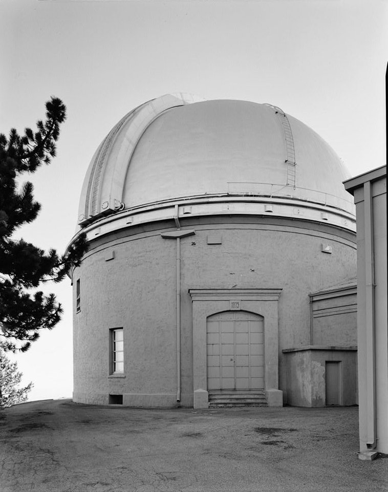 Lick Observatory: Observatory south tower, looking southwest